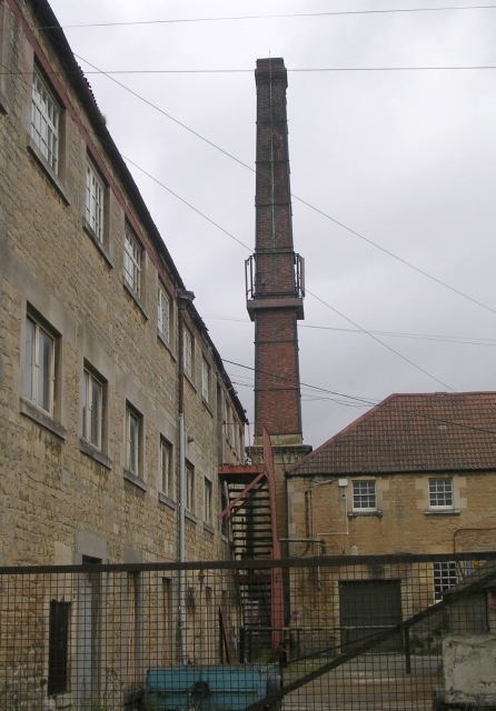 Tannery Chimney - The Midlands, Holt